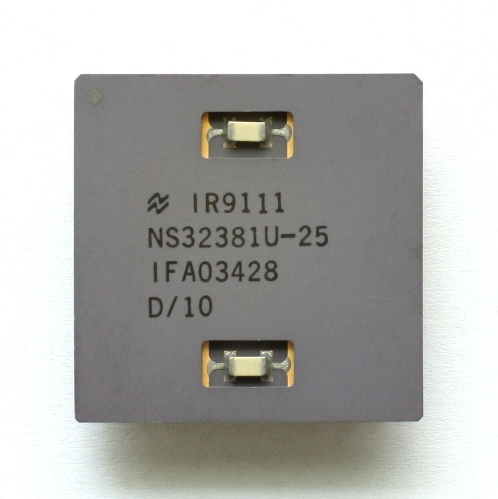 FPU National Semiconductor NS32381U.